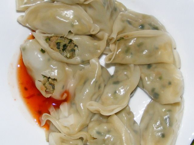 Kuai Tiau Pak Mo, a kind of steamed noodle wonton (dumpling), steamed on the "mouth of the pot" ("pak mo").